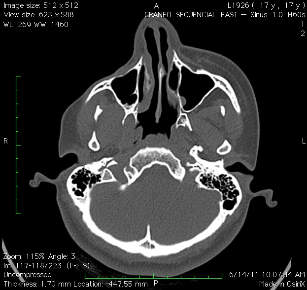 A CT scan of a 17 year old girl with Parry Romberg syndrome, showing shrinkage and atrophy of the underlaying subcutaneous tissue and underlaying muscle, with no apparent involvement of the bone structure.